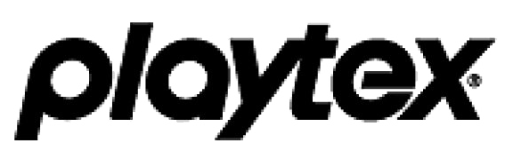 Original Logo for Playtex